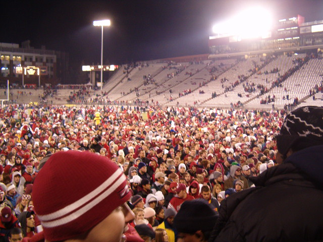 Cougar fans celebrate on the field after ending a 6 year losing streak in the en:2004 Apple Cup, the annual football game between in-state rivals University of Washington and Washington State University. The Cougars would also go on to defeat their rival in the en:2005 Apple Cup at Husky Stadium in Seattle.